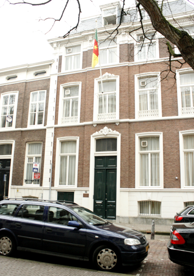 Cameroon Embassy in the Hague (Netherlands).jpg